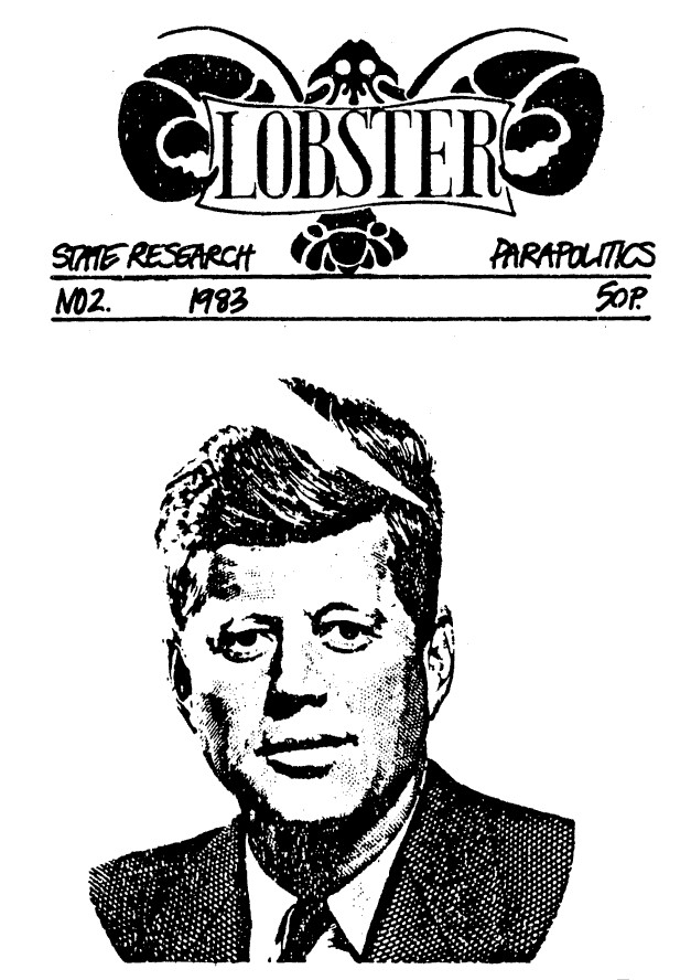 Cover image of Lobster magazine issue #2, Nov 1983, featuring an image of John F. Kennedy